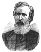 Oregon pioneer Francis Pettygrove